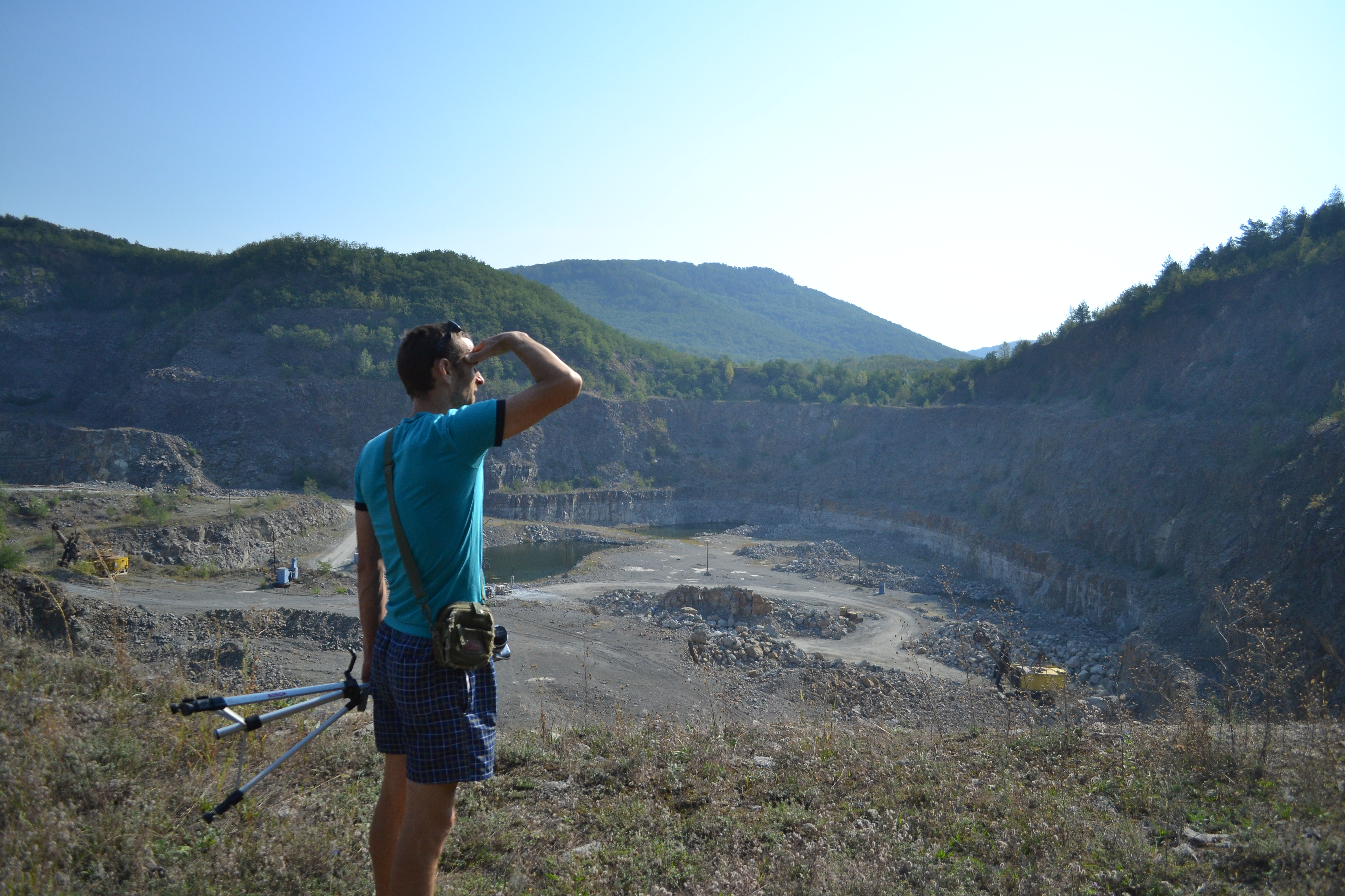 A quarry at the site of a Paleolithic site (up to 1 million years old) in the village of Korolevo, Vinogradovsky district of Transcarpathia, where one of the largest palaeontological collections in Europe was found